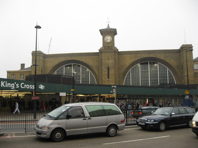 Kings Cross Station London King's Cross was originally designed and built as the London hub of the Great Northern Railway and terminus of the East Coast Main Line. It was constructed in two years from 1851 to 1852and was opened on 14 October 1852. The façade, although obscured by the 1970’s extension, is Grade 1 listed.